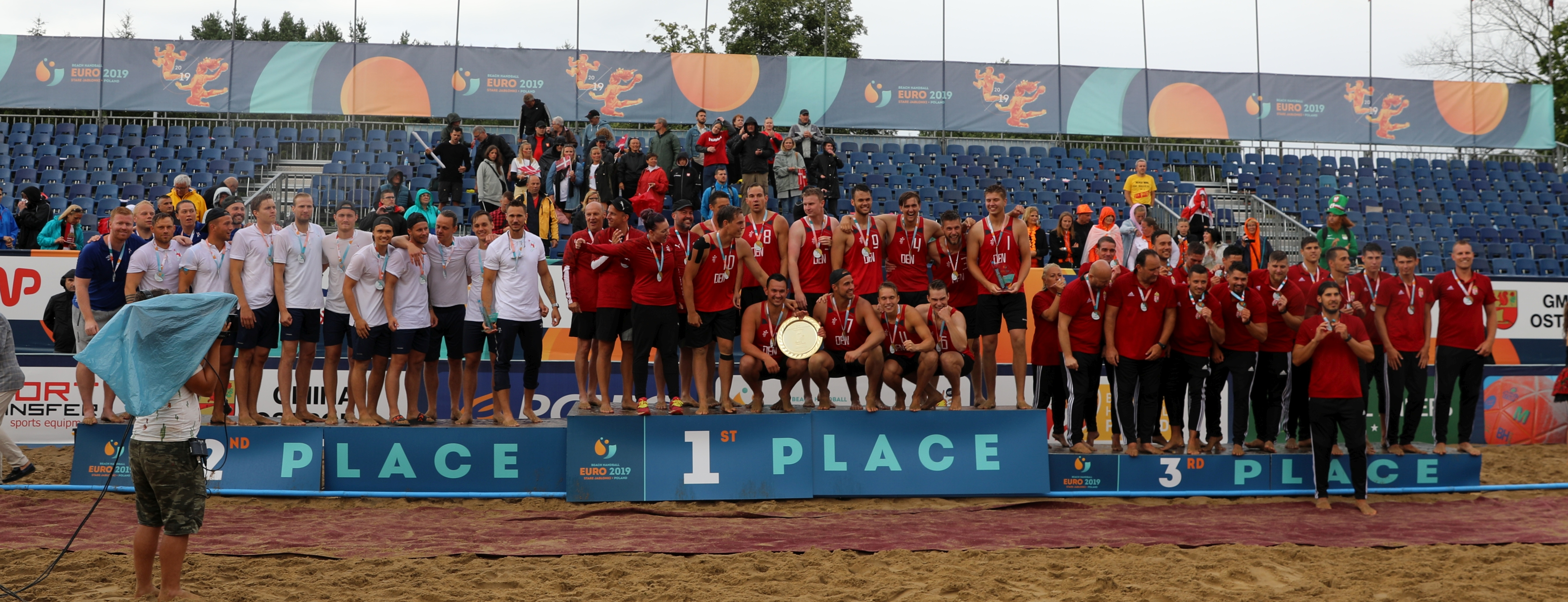 Beach handball Euro; Day 6: 7 July 2019 – Medal ceremony